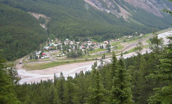 The town of Field, British Columbia, Canada as viewed from the side of Mount Burgess.